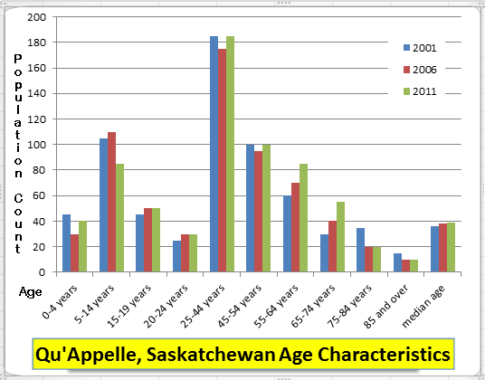 Using the Statistics Canada informaton from the community profiles 2001, 2006, and 2011 census, this chart was created showing age characteristics over the 10 years. Statistics Canada. 2007. Qu'Appelle, Saskatchewan (Code4706036) (table). 2006 Community Profiles. 2006 Census. Statistics Canada Catalogue no. 92-591-XWE. Ottawa. Released March 13, 2007. (accessed February 10, 2013). Statistics Canada. 2012. Qu'Appelle, Saskatchewan (Code 4706036) and Division No. 6, Saskatchewan (Code 4706) (table). Census Profile. 2011 Census. Statistics Canada Catalogue no. 98-316-XWE. Ottawa. Released October 24, 2012. (accessed February 10, 2013). Statistics Canada. 2002. Qu'Appelle, Saskatchewanand Division No. 6, Saskatchewan (table). Census Profile. 2001 Census. Statistics Canada Ottawa. Released 2002. (accessed February 10, 2013).